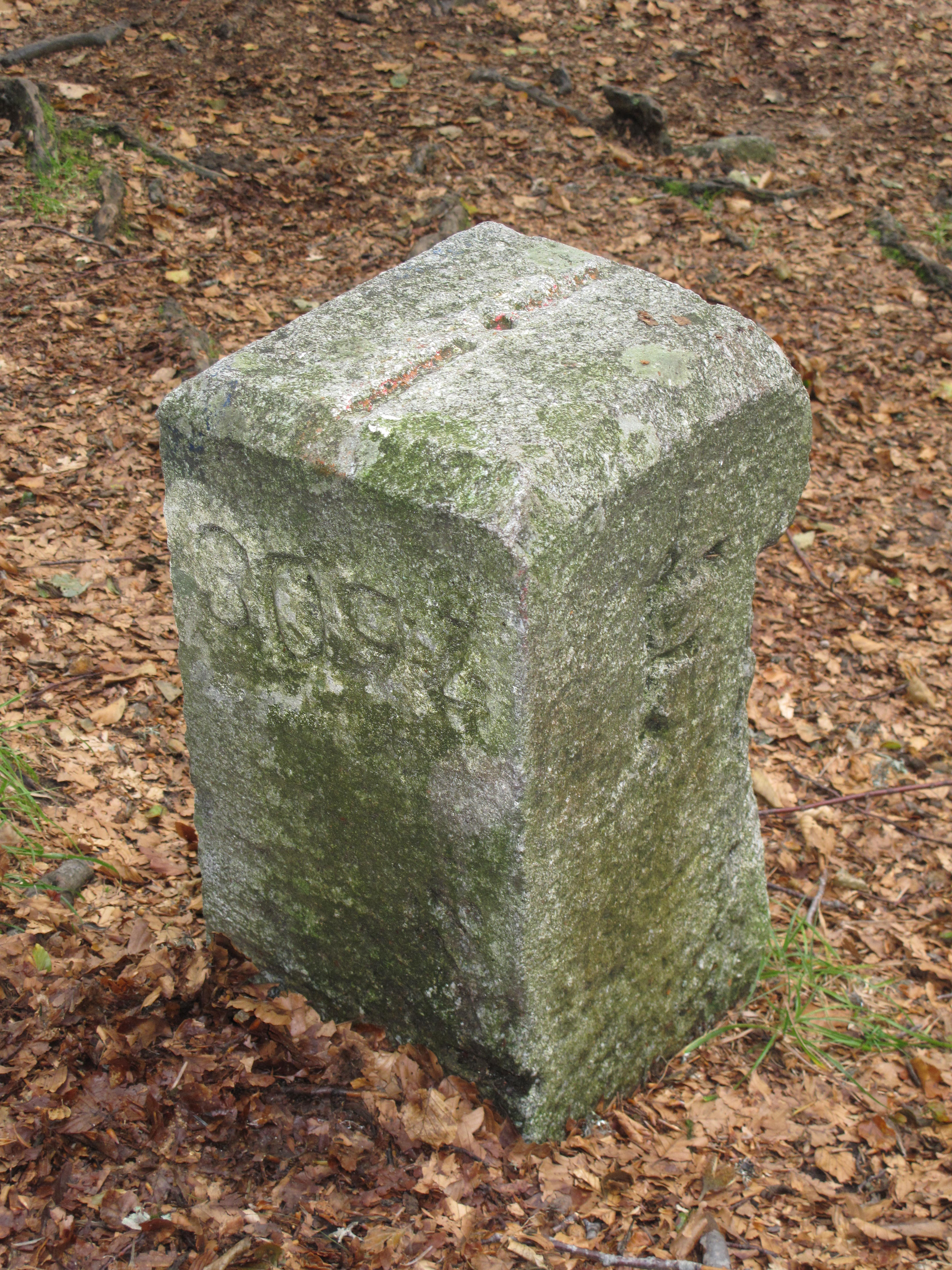 Stone indicating the former border between France and Germany during the German occupation of Alsace-Lorraine (1871-1918). Near Bussang (Vosges, France). The letter D is for Deutschland. At the top, an encarved line (formerly painted in red) shows the direction of the previous and of the following stones. There were 4,056 stones like this one, with a distance of 60 meters between each. This one is the number 3092.